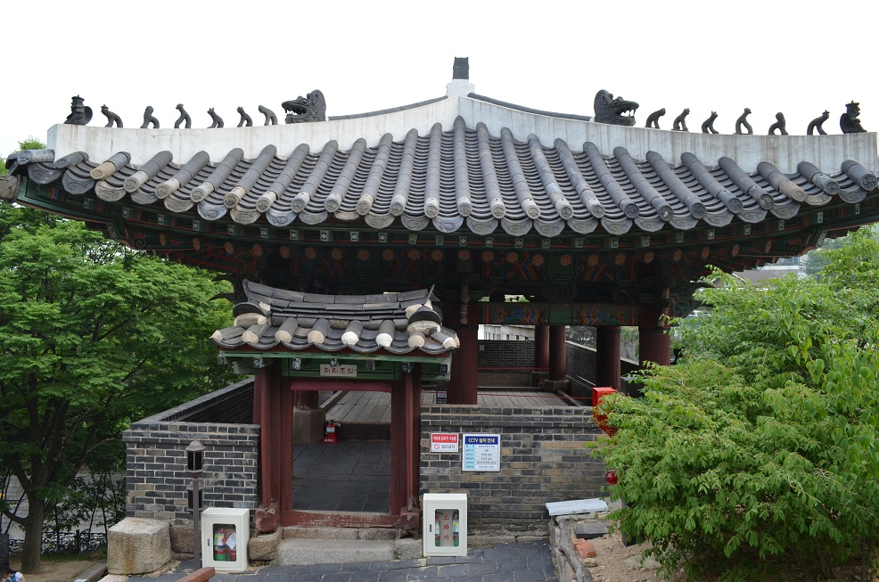 Changuimun Gate, also known as Northwest Gate or Buksomun, Seoul, South Korea. Photographed June 6, 2012.